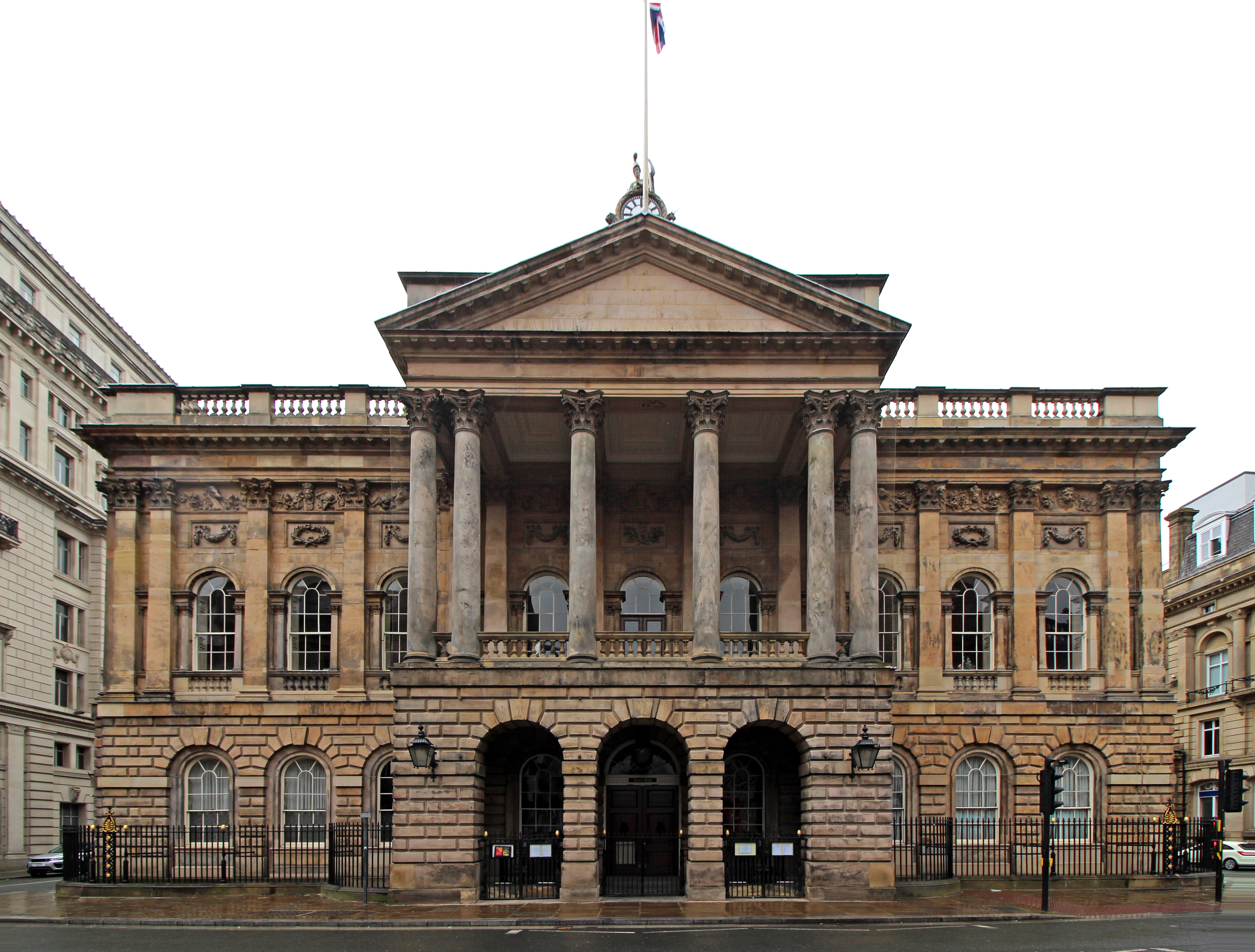 View from Castle Street of the Grade I listed Liverpool Town Hall, the portico dating to 1811 and the building to 1795.